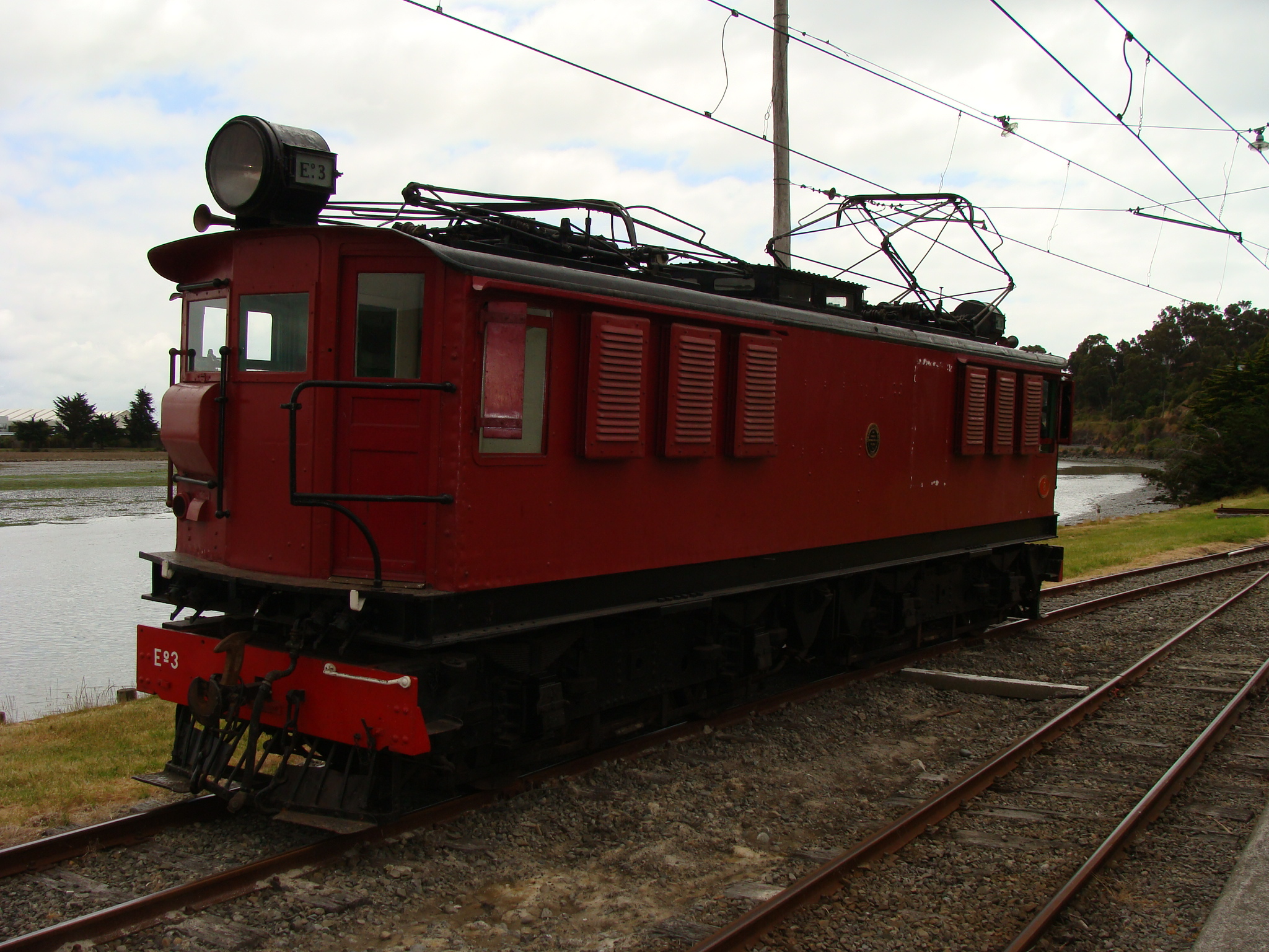 NZR electric locomotive Eo 3 running around a train at the Ferrymead loop.